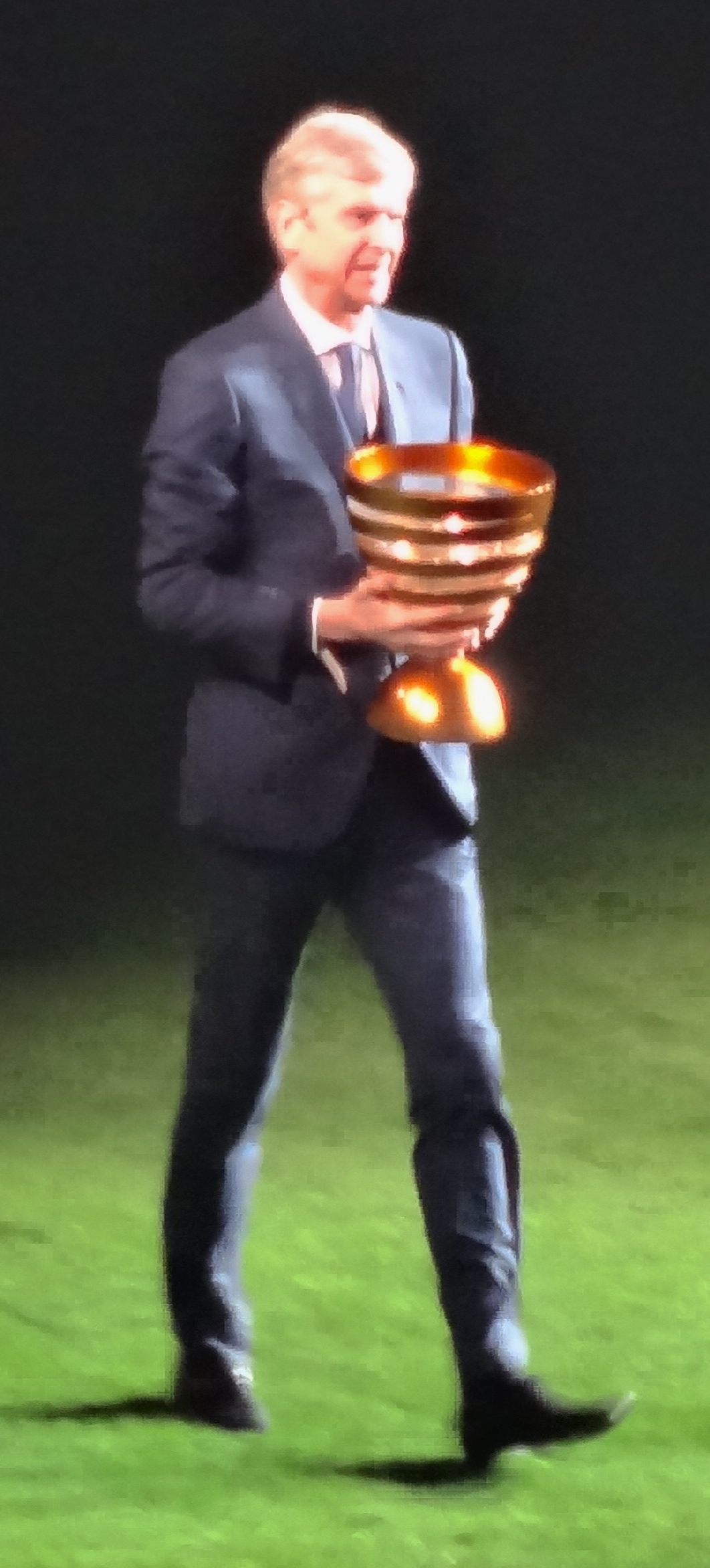 Arsène Wenger with the French League Cup (2019)